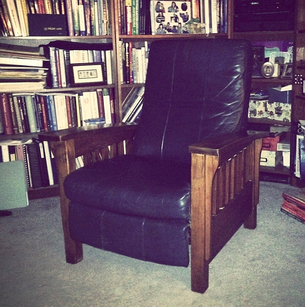 A vintage Barcalounger